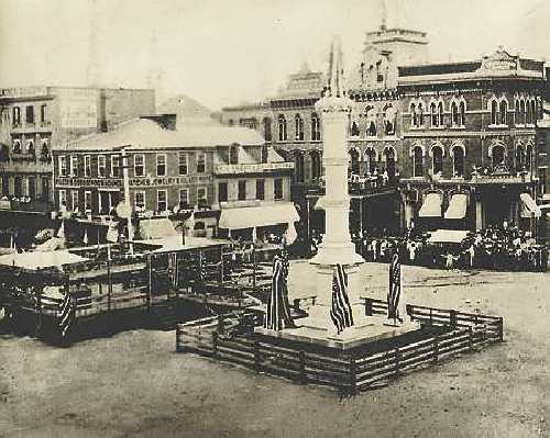 The Soldiers and Sailors Monument, Penn Square, in downtown Lancaster, Pennsylvania. This photo was taken on the day of the Monument's dedication on July 4, 1874. This photo is public domain in the United States because it was taken and published before 1923.